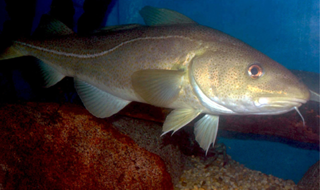 Atlantic cod, Gadus morhua